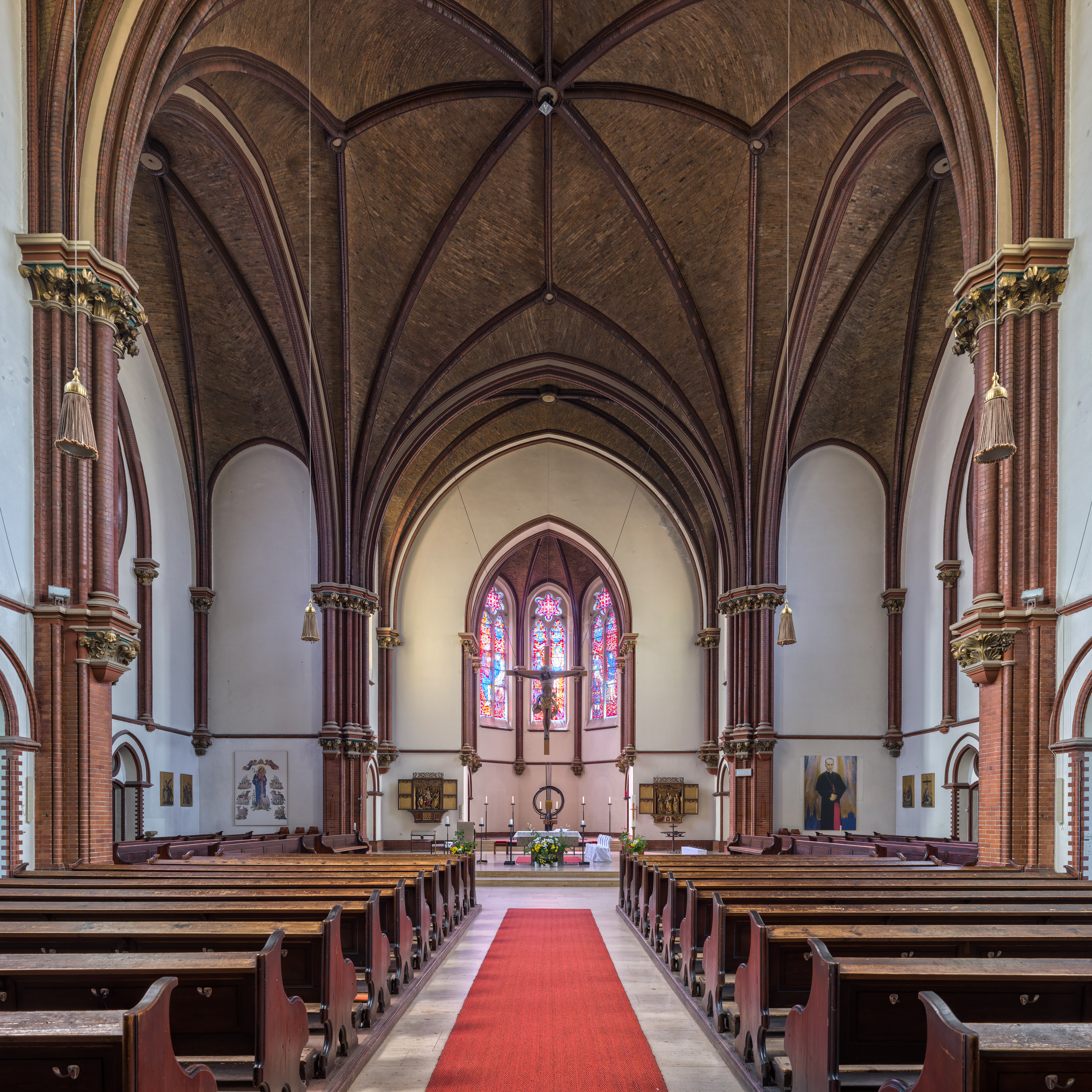 Church of St. Sebastian (Berlin-Wedding), nave.